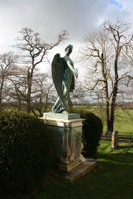 Baron Pauncefote memorial The inscription reads .... To the dearly loved memory of the Right Honourable Julian Baron Pauncefote of Preston GCB GCMG, first Ambassador to the United States of America. Born September 13th 1828, died in Washington May 24th 1902. Blessed are the peacemakers 5.Matt.9.v